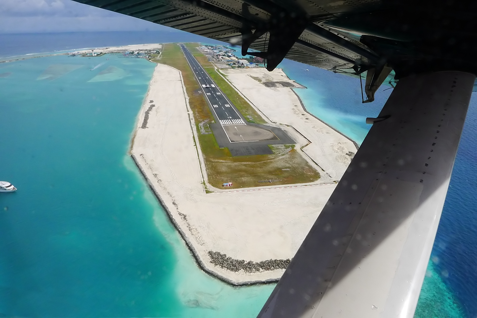 A view of the runway at the international airport in Malé, Maldives from the seaplane.